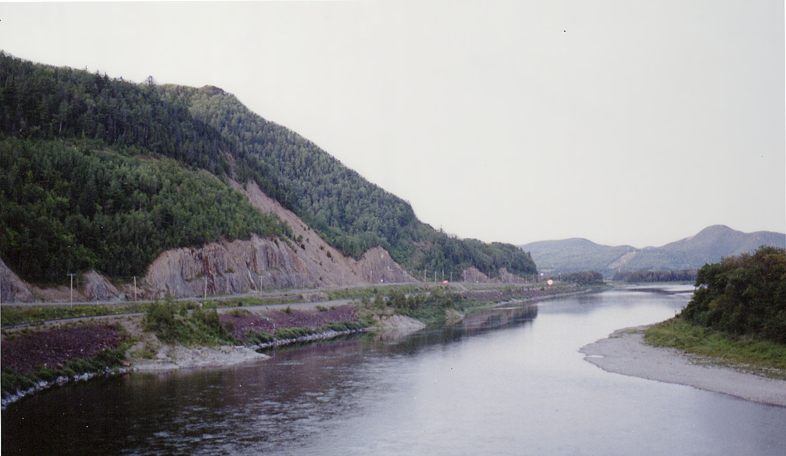 Restigouche River, that separates New Brunswick, on the right, and the Gaspé Peninsula on the left. This shot faces East.